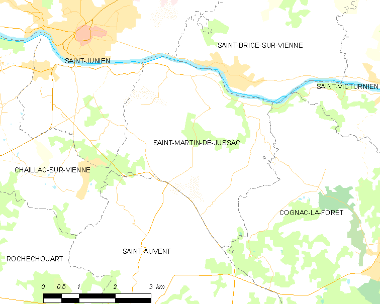 Map of French municipality Saint-Martin-de-Jussac